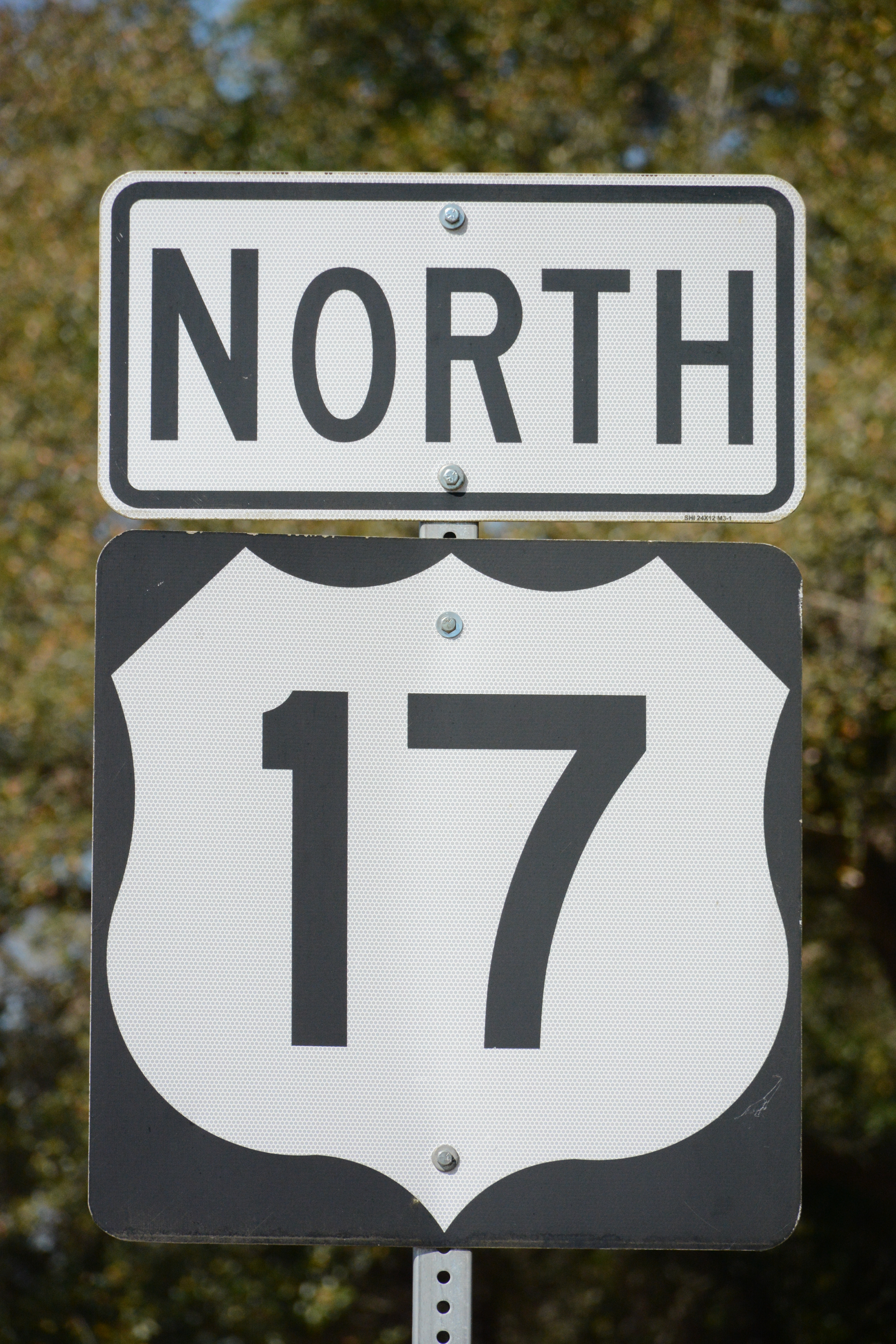 A US 17 highway sign in McIntosh County, Georgia, USA